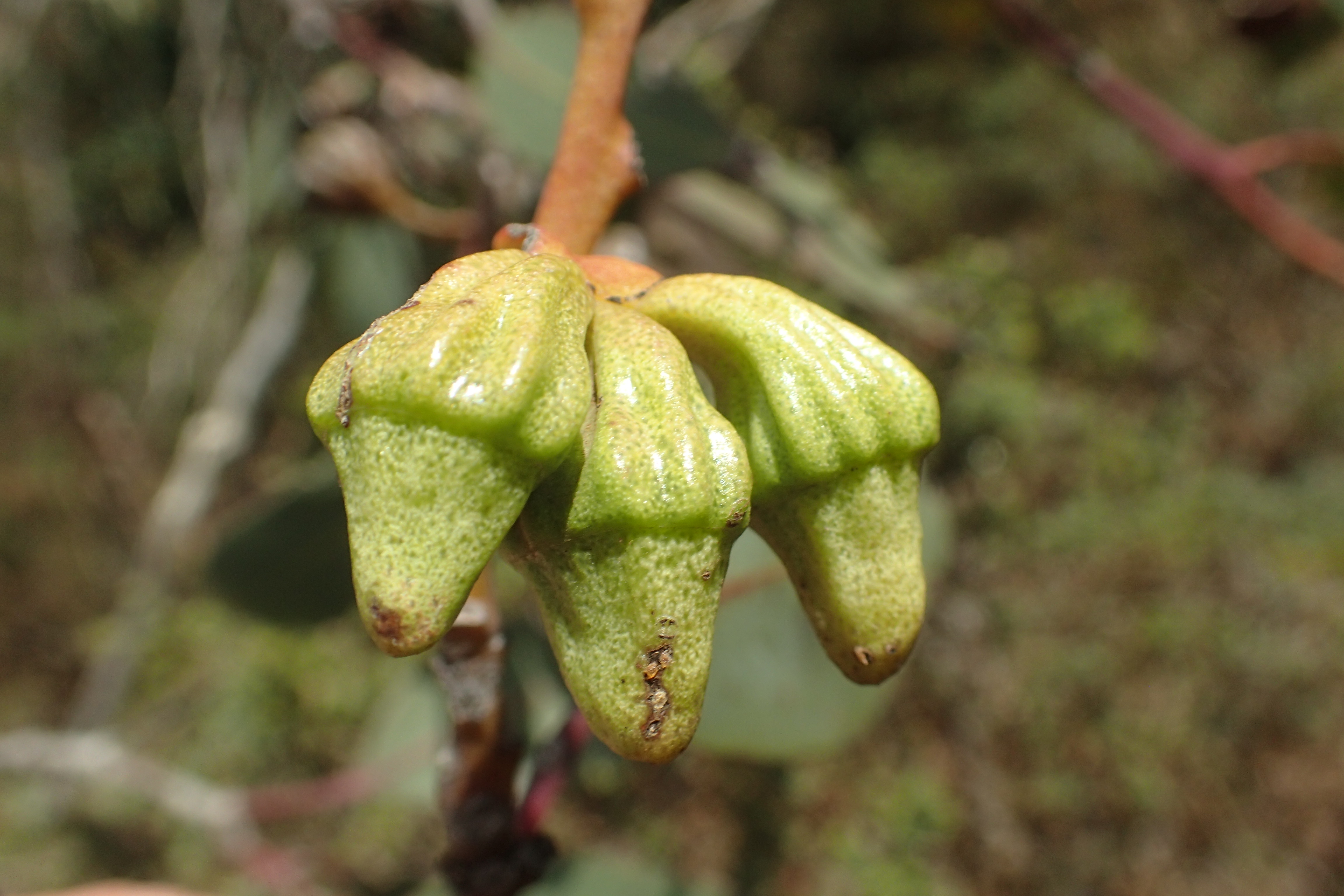 Flower buds of Eucalyptus kessellii subsp. kessellii in the Mount Burdett Nature Reserve, north east of Esperance, W.A.